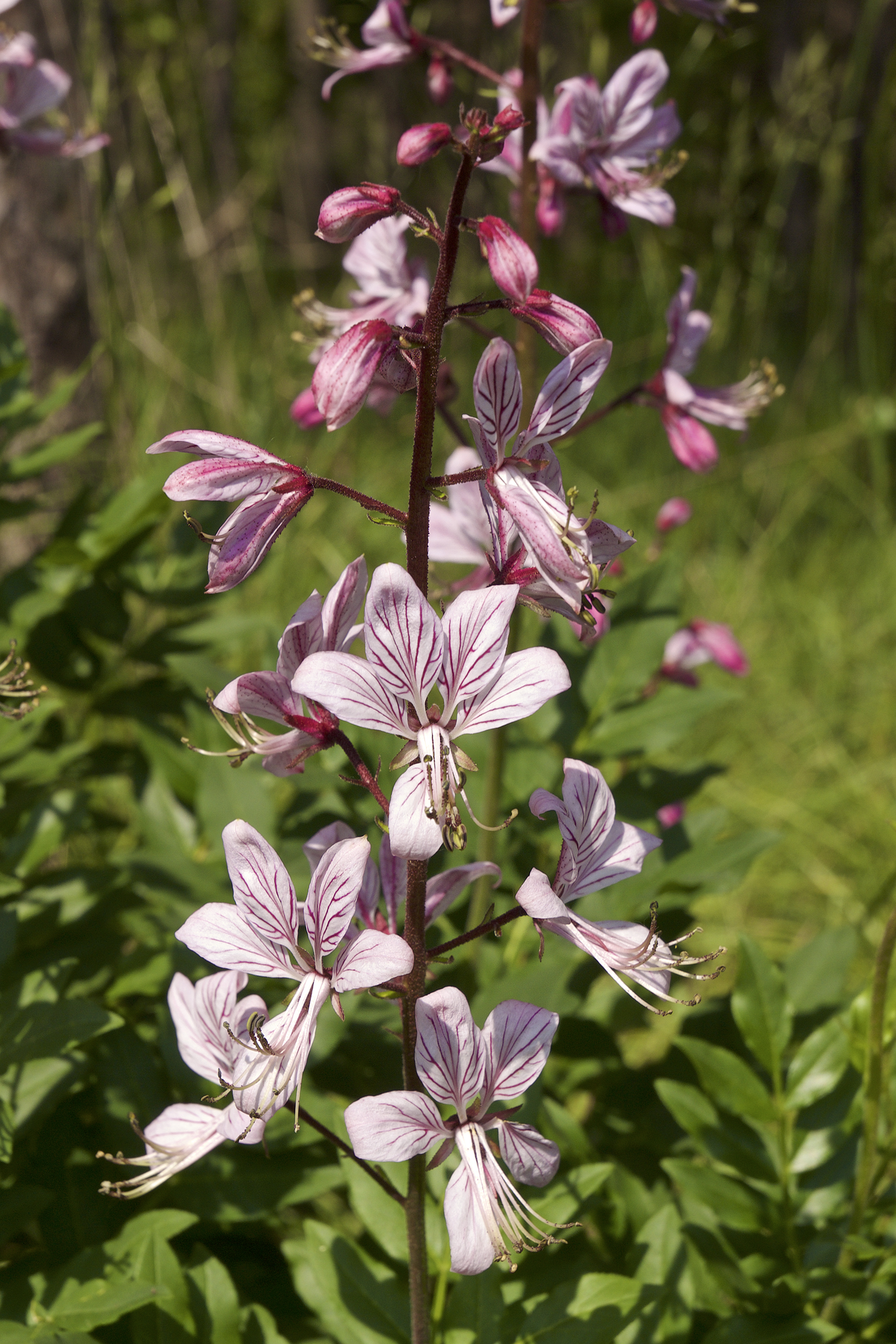 Flowers of White Dittany (Dictamnus albus), Leutra, Germany